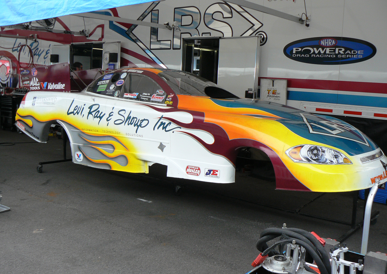 A photo of Tim Wilkerson's car at the 2008 Gatornatinals in Gainsville, FL.